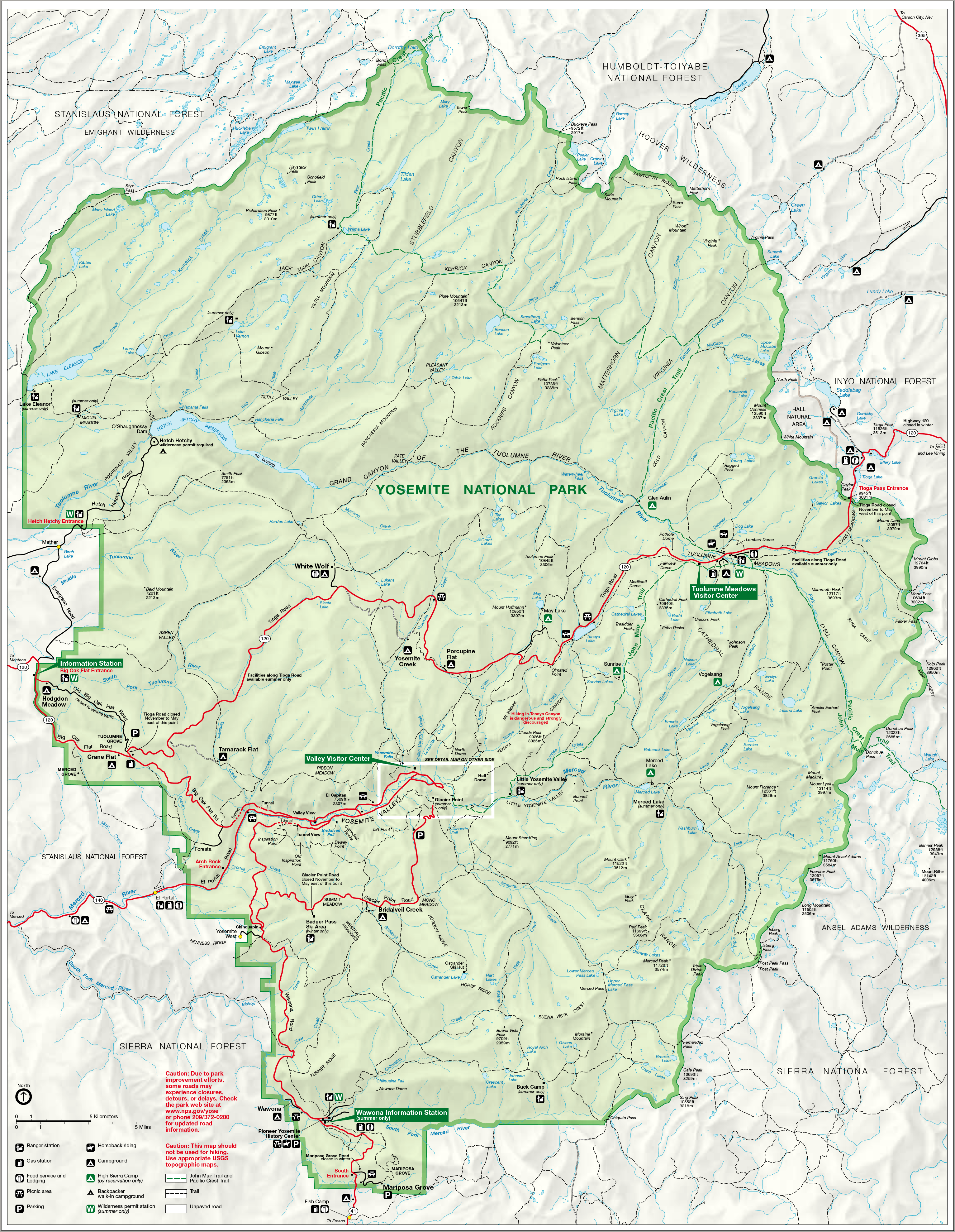 Map of Yosemite National Park